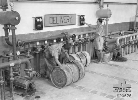 TOBRUK, LIBYA. 1941-09-17. THE INTERIOR OF THE DETAILS ISSUING DEPOT PETROL PUMPING STATION. Australian soldiers using captured Italian 200L drums and a fuel filling station